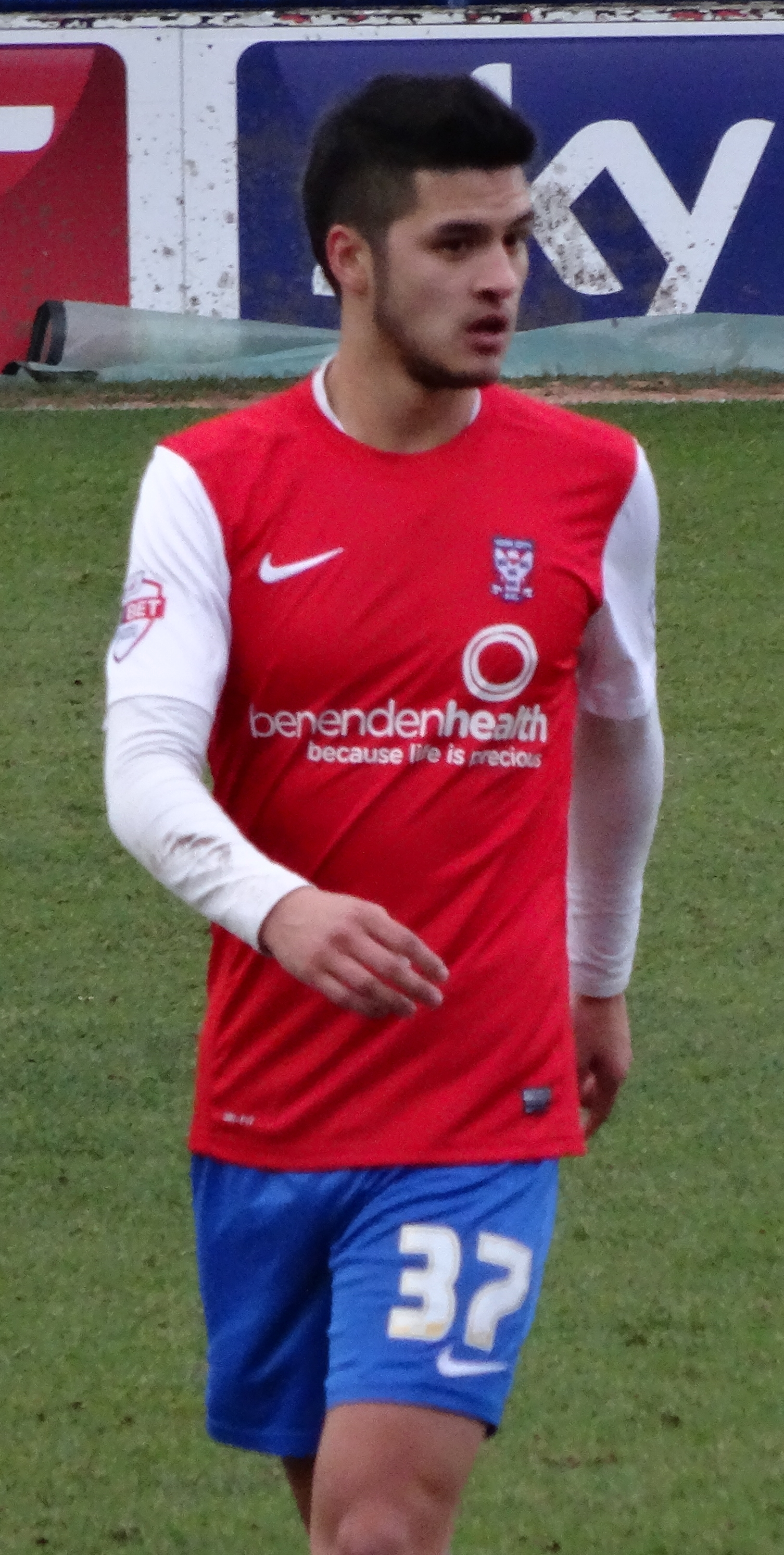 Adam Reed playing for York City against Cheltenham Town at Bootham Crescent, York on 8 February 2014